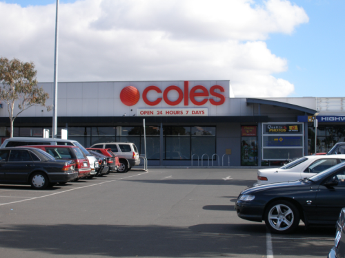 exterior of a coles supermarket